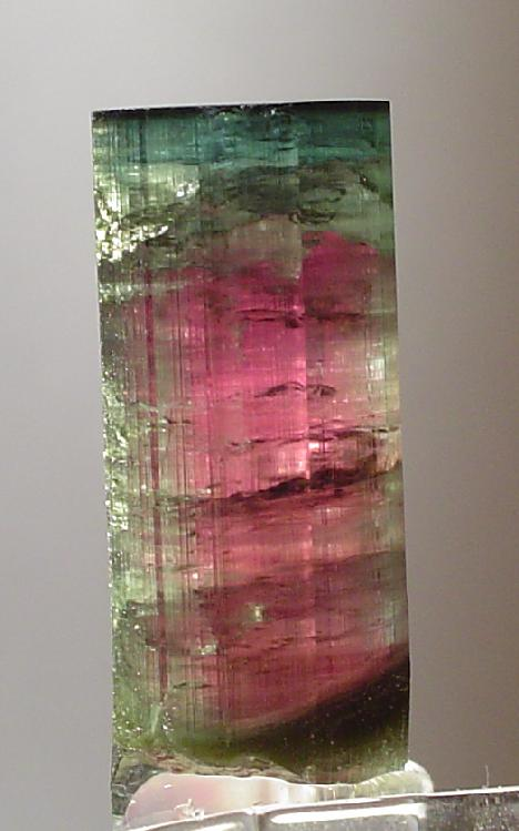 Elbaite Locality: Pederneira claim, São José da Safira, Doce valley, Minas Gerais, Southeast Region, Brazil (Locality at ) Size: 2.7 x 1.0 x 1.0 cm. A very nice thumbnail Pederneira watermelon tourmaline. The rich pink core is sheathed in a very thin rind of green. A gemmy and lustrous, beautiful, teal-blue zone lies beneath the lustrous, dark purple termination. Complete-all-around and very nearly pristine. The unretouched backlit photo highlights the gorgeous colors and gemminess. A classic and pretty Pederneira watermelon tourmaline.